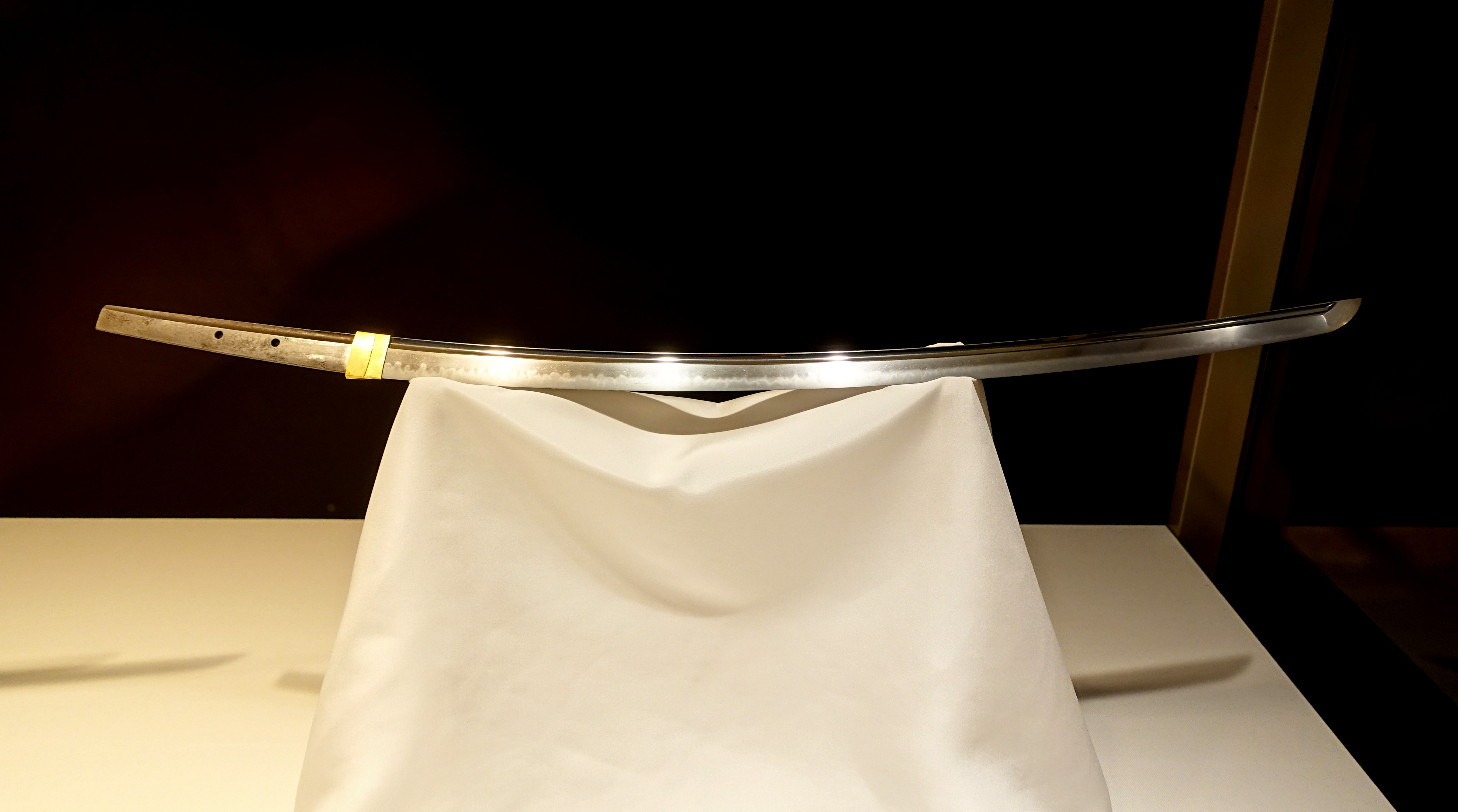 Exhibit in the Tokyo National Museum, Tokyo, Japan. This work is old enough so that it is in the public domain.